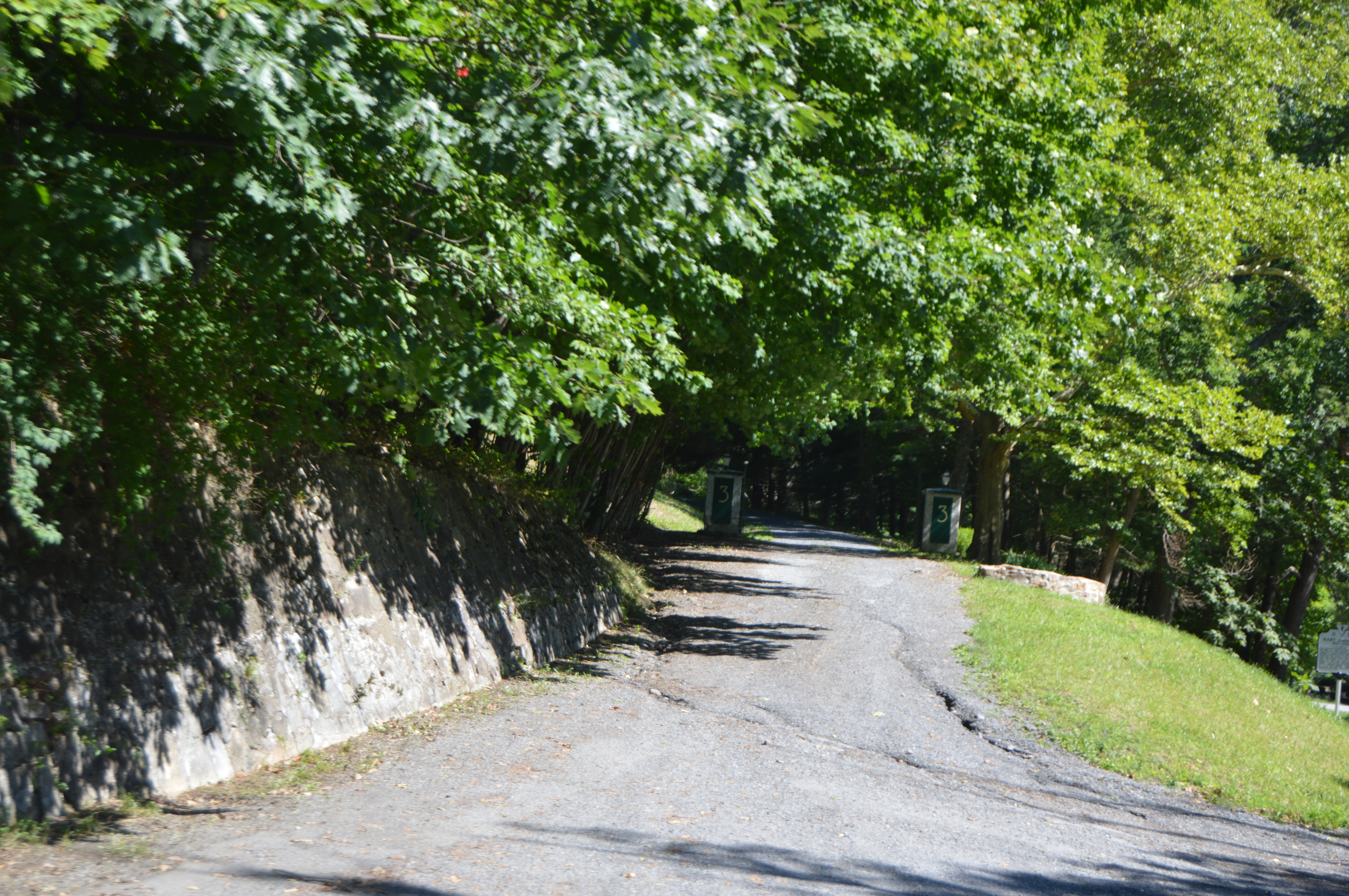 Driveway to the Three Hills property, located off U.S. Route 220 at Warm Springs in Bath County, Virginia, United States. The property is listed on the National Register of Historic Places.